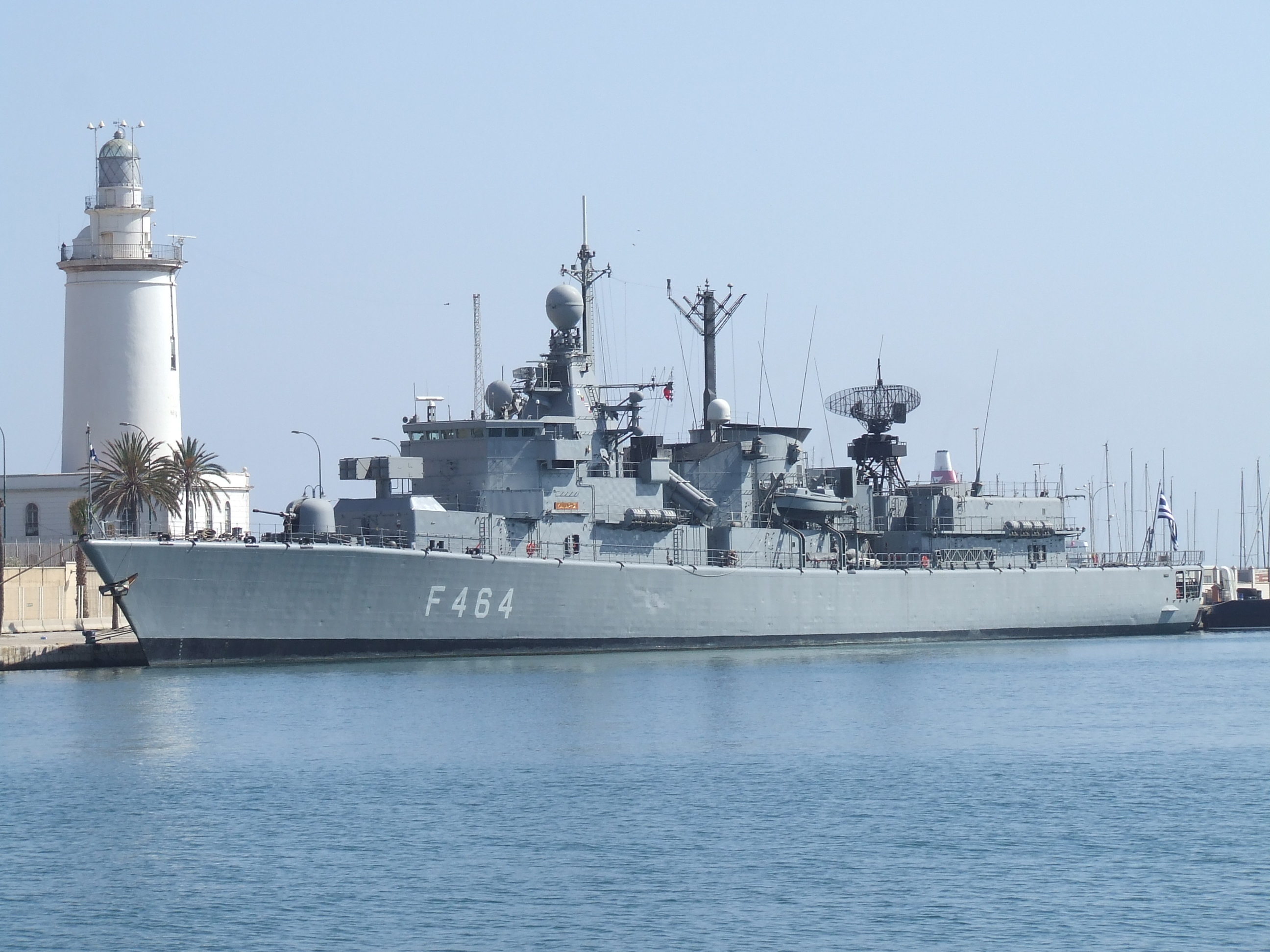 The Hellenic frigate Kanaris (F-464) in Málaga, 11th August 2008.